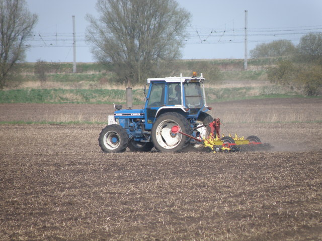 Sugar beet drilling, Sawtry Fen, 3 km from Conington, Cambridgeshire, Great Britain. Sugar beet is well suited for growing on the black fen soils of East Anglia. Apart from the rhizomania threat most pests and diseases are kept in check by good agronomy. The light soils can produce high yields and easy harvesting in most years.